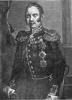 Dmytro_Osten-Saken, general from Kirovohrad